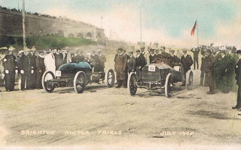 Postcard entitled "Brighton Motor Trials July 1905"